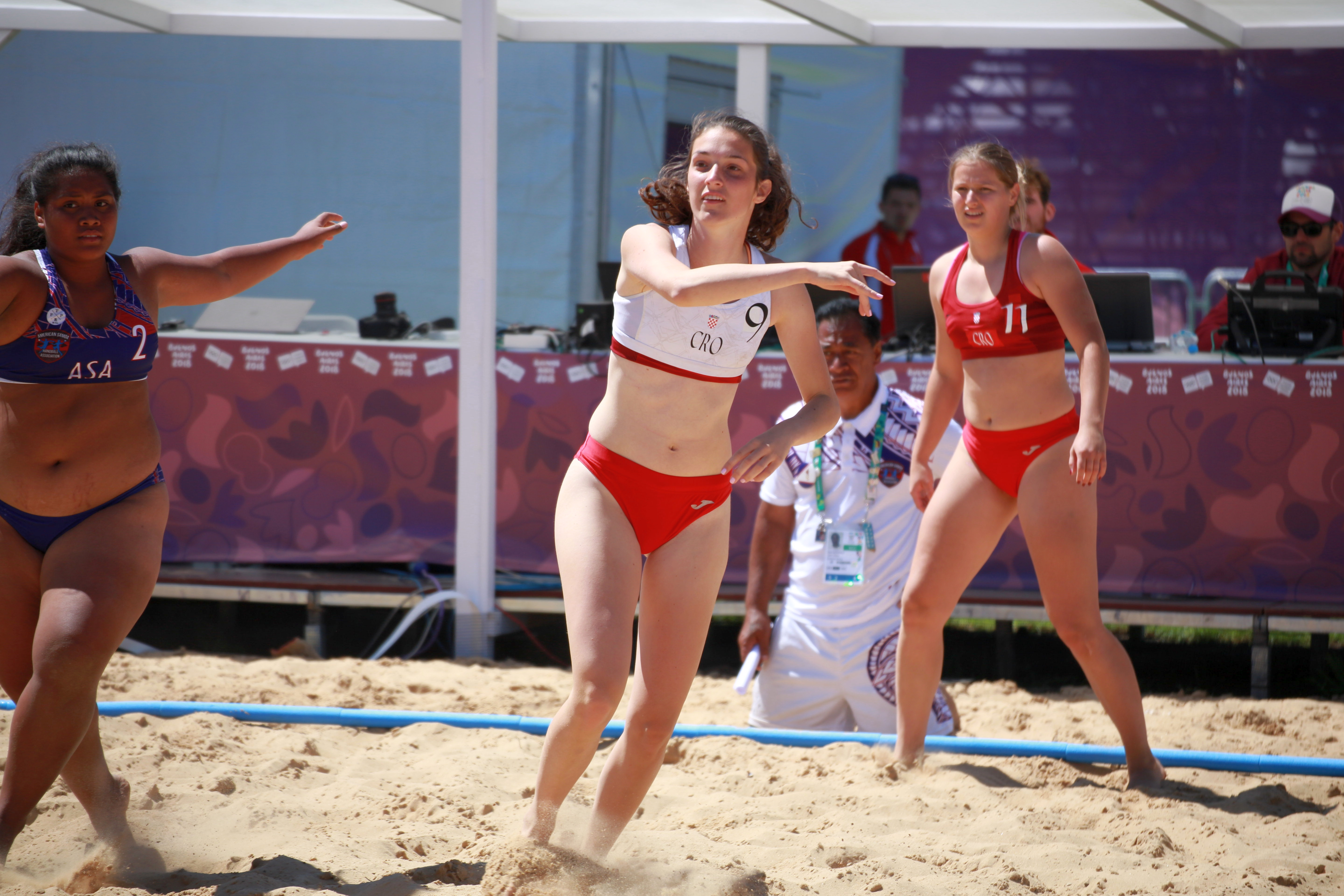 Beach handball at the 2018 Summer Youth Olympics at 10 October 2018 – Girls Preliminary Round Group A – Croatia-American Samoa 2:0